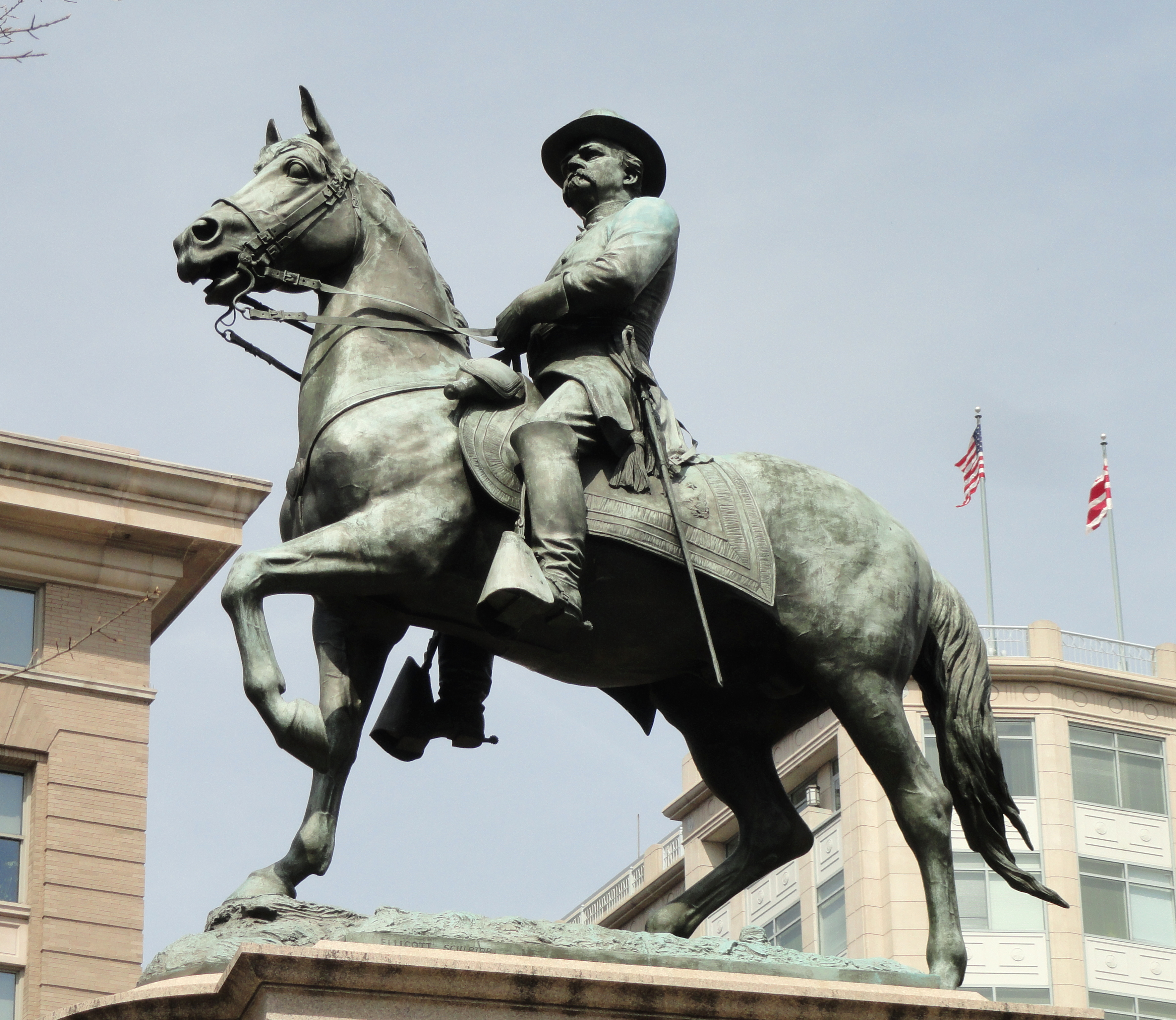 Winfield Scott Hancock Memorial, Washington, DC, USA. Sculptor: Henry Jackson Ellicott. This artwork is in the public domain because the artist died more than 70 years ago.